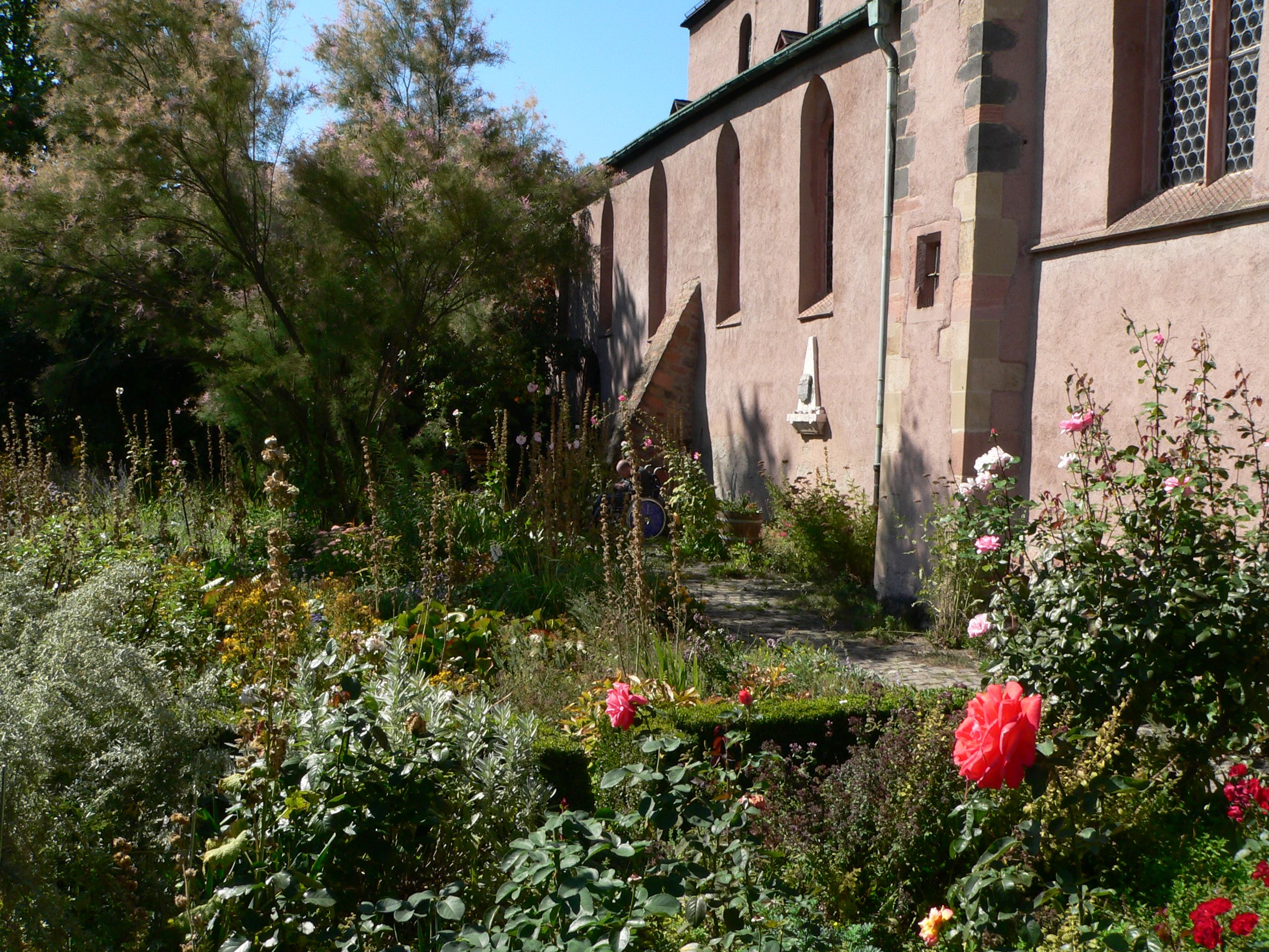 Garden of St Justin in Höchst with medicinal herbs grown there by the Antoniter monks